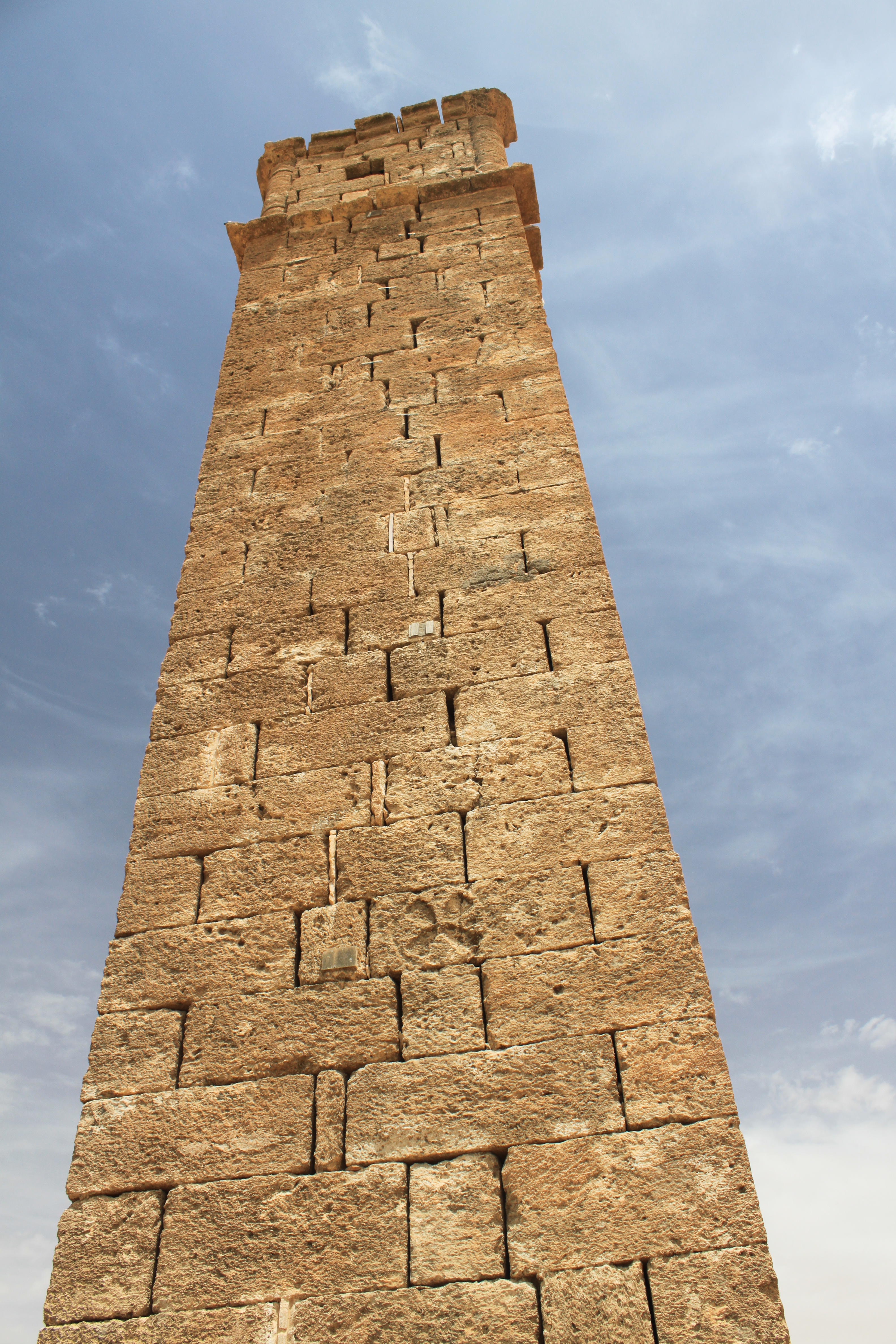 Stylite tower